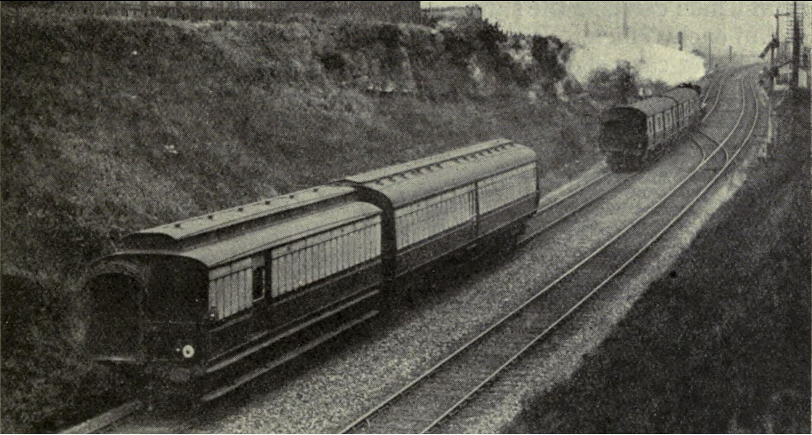 Coaches have been detached from an express mail train and will be braked to a standstill by a guard in the coaches while the express mail continues undelayed to its next station